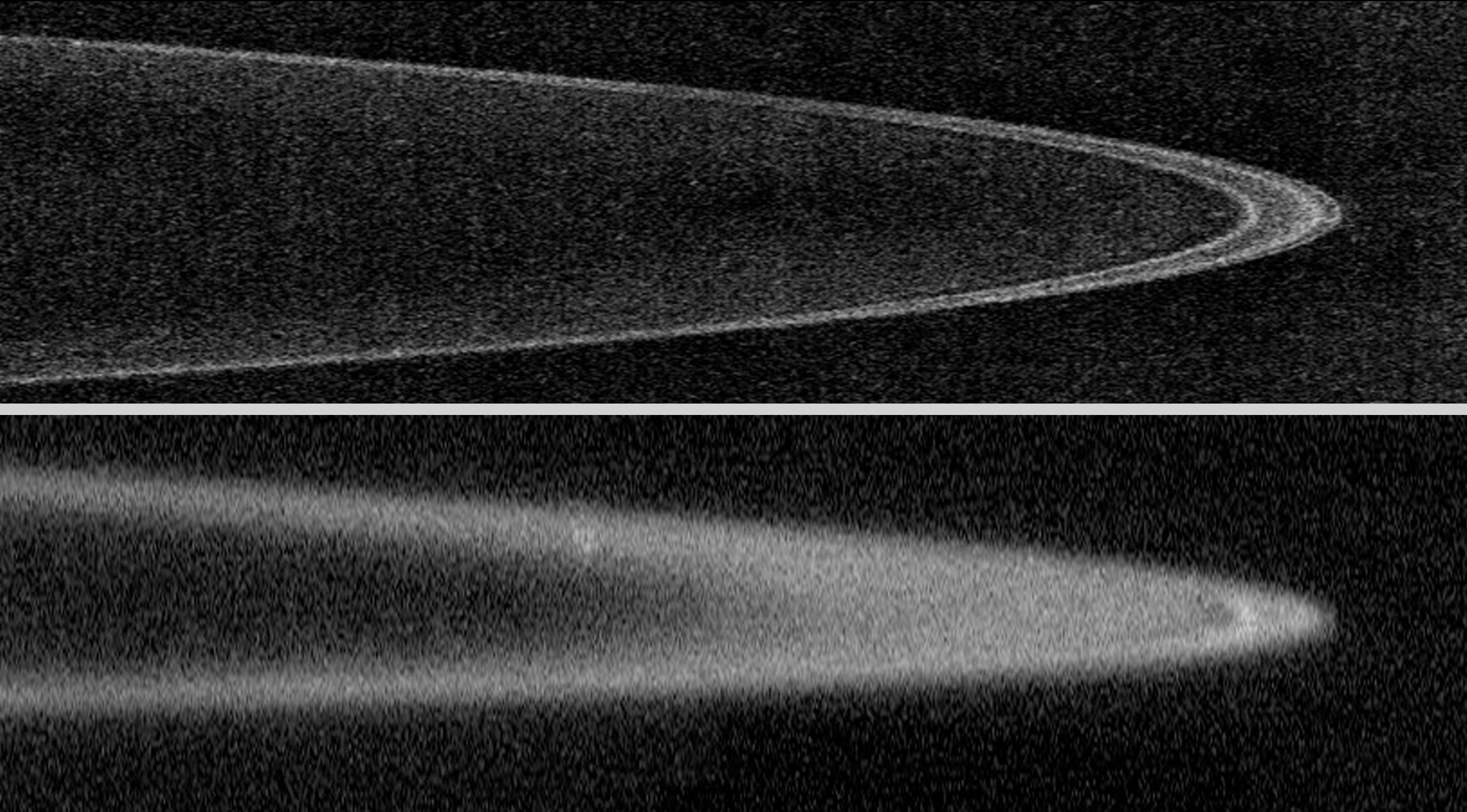 Category:Jupiter Images of the jovian main ring obtained by the New Horizons spacecraft in backscattered (top) and forward-scattered (bottom) light. A faint outer ringlet is just outside the orbit of Adrastea. A gap situated between the orbits of Metis and Adrastea is clearly visible. Metis is just inside the bright outer (~1000 km) part of the ring.